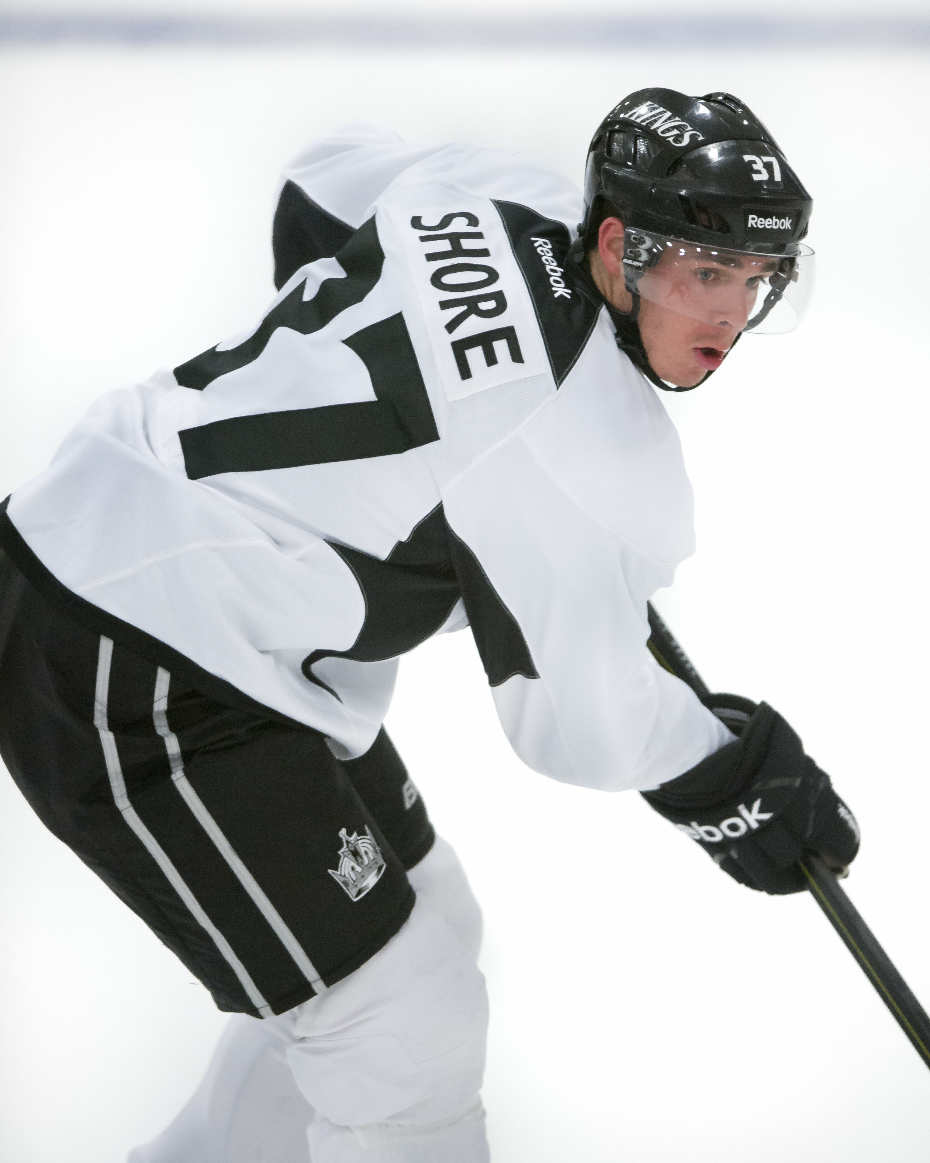 Nick Shore, American ice hockey centre